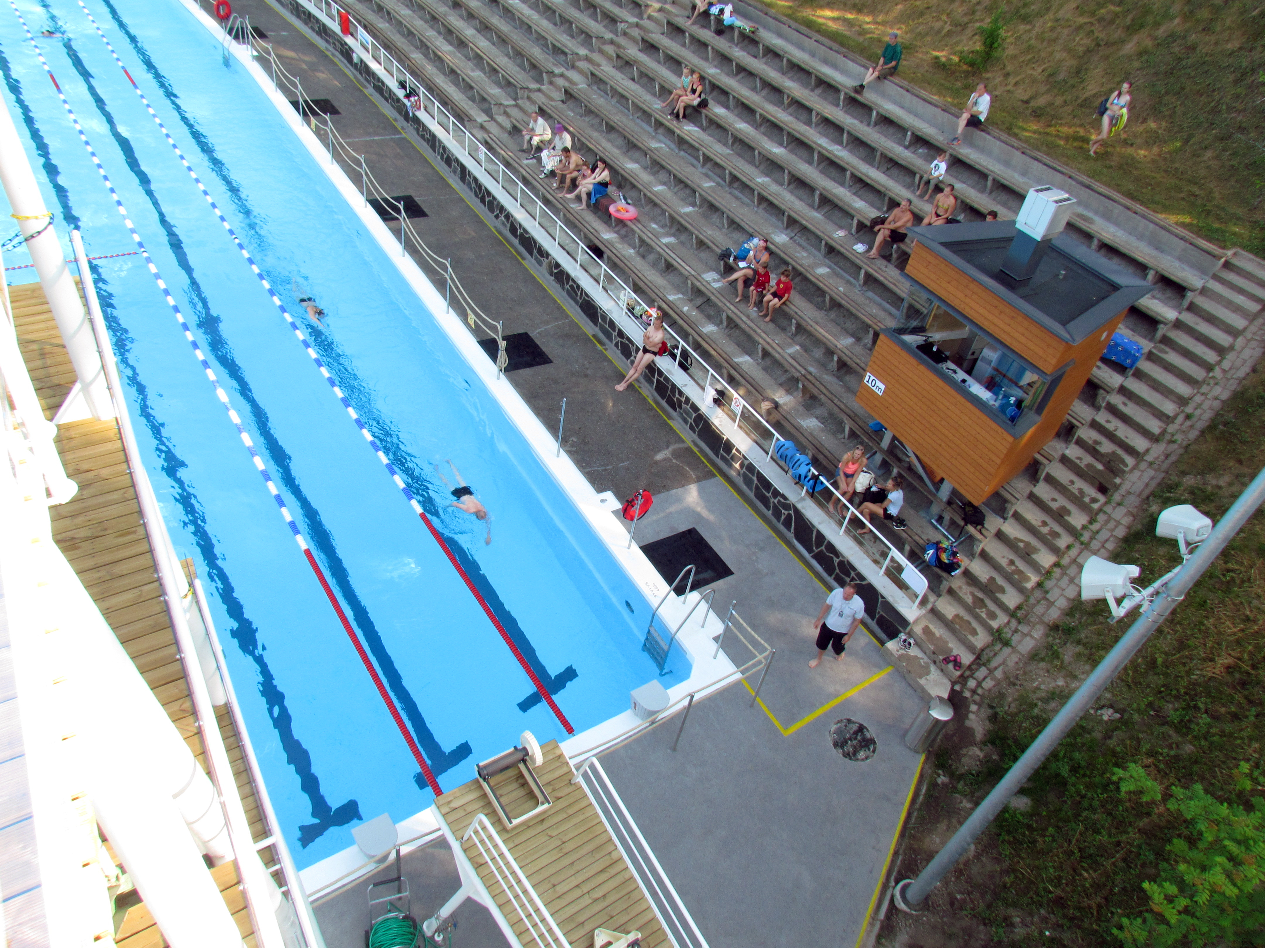 Ahveniston lido in Hämeenlinna was re-opened after renovation the 26th of July in 2014.